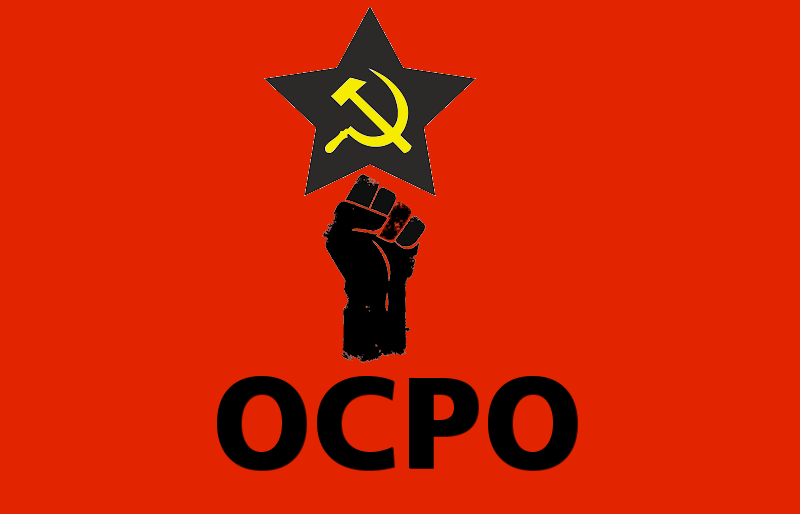 Flag used in its communiqués by the military-political organization Organización Comunista Poder Obrero, active from 1973 to 1975